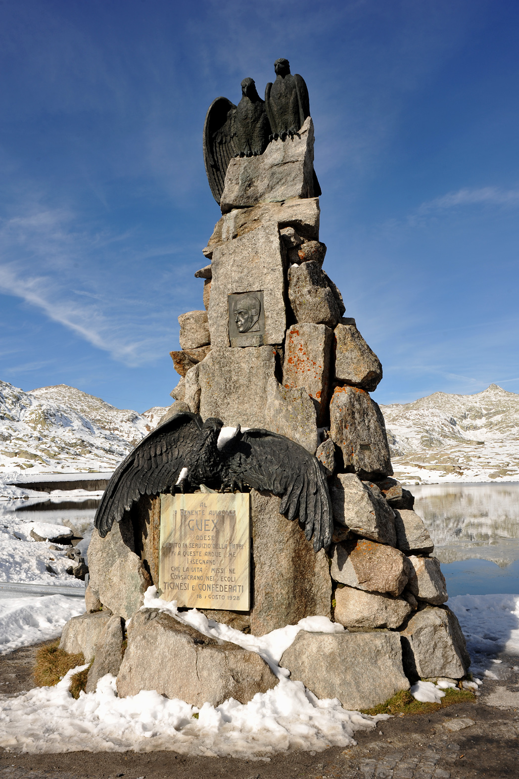 Memorial for the downed pilot Adrien Guex on the Gotthard pass; Ticino, Switzerland. First lieutenant Adrien Guex (* 1901) crashed and was killed on 7 August 1927 at 9:02 a. m. in his Fokker D VII, 627 during a reconnaissance flight between the hospice and the fort (coord. 686590/156760) due to poor visibility.[1] The monument by Fausto Agnelli was inaugurated on 18 August 1928.